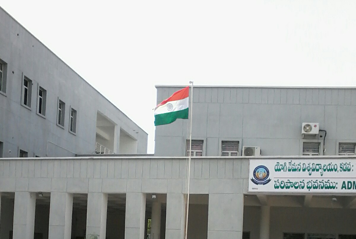 side view of yvu admin building